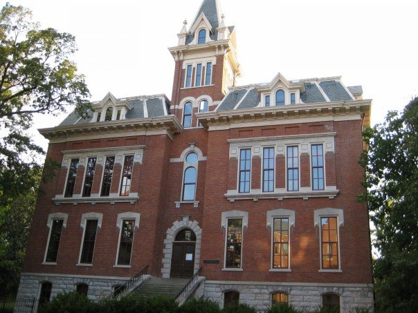 Benson Hall